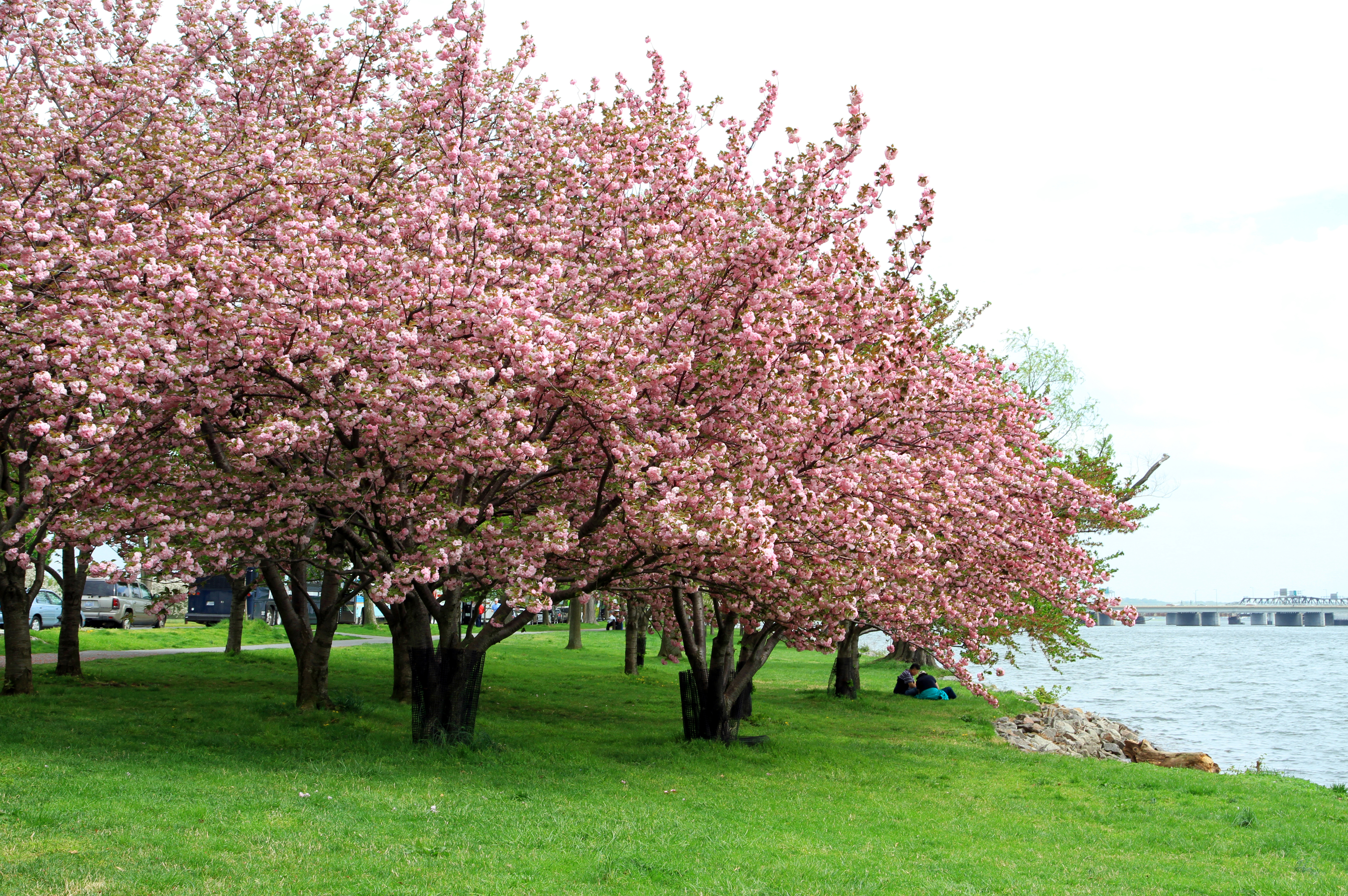 Cherry Blossom